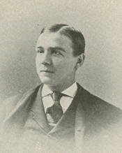 George N. Southwick, Congressman from New York.